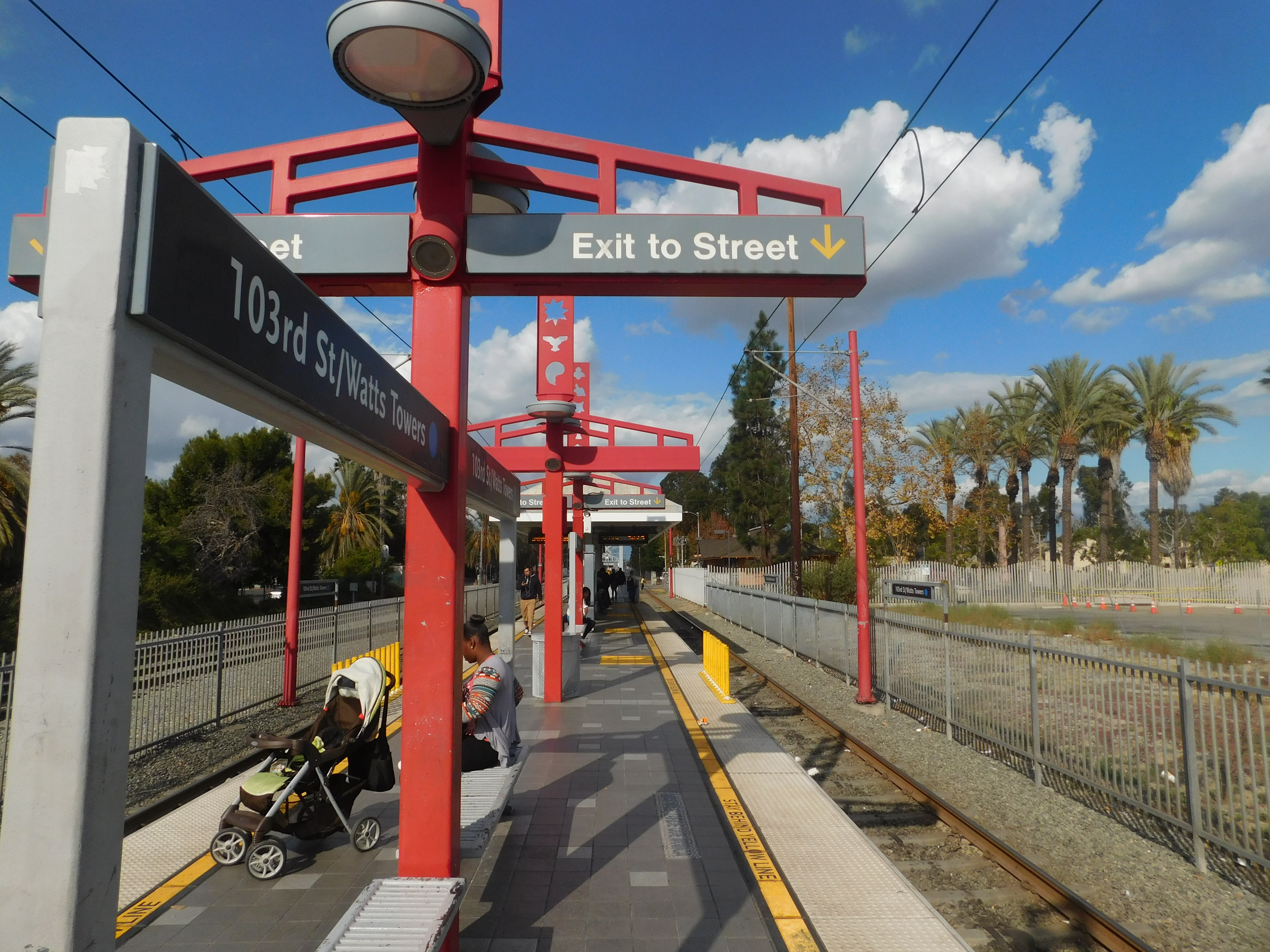 103rd Street-Watts Towers station in the Watts section of Los Angeles, California.